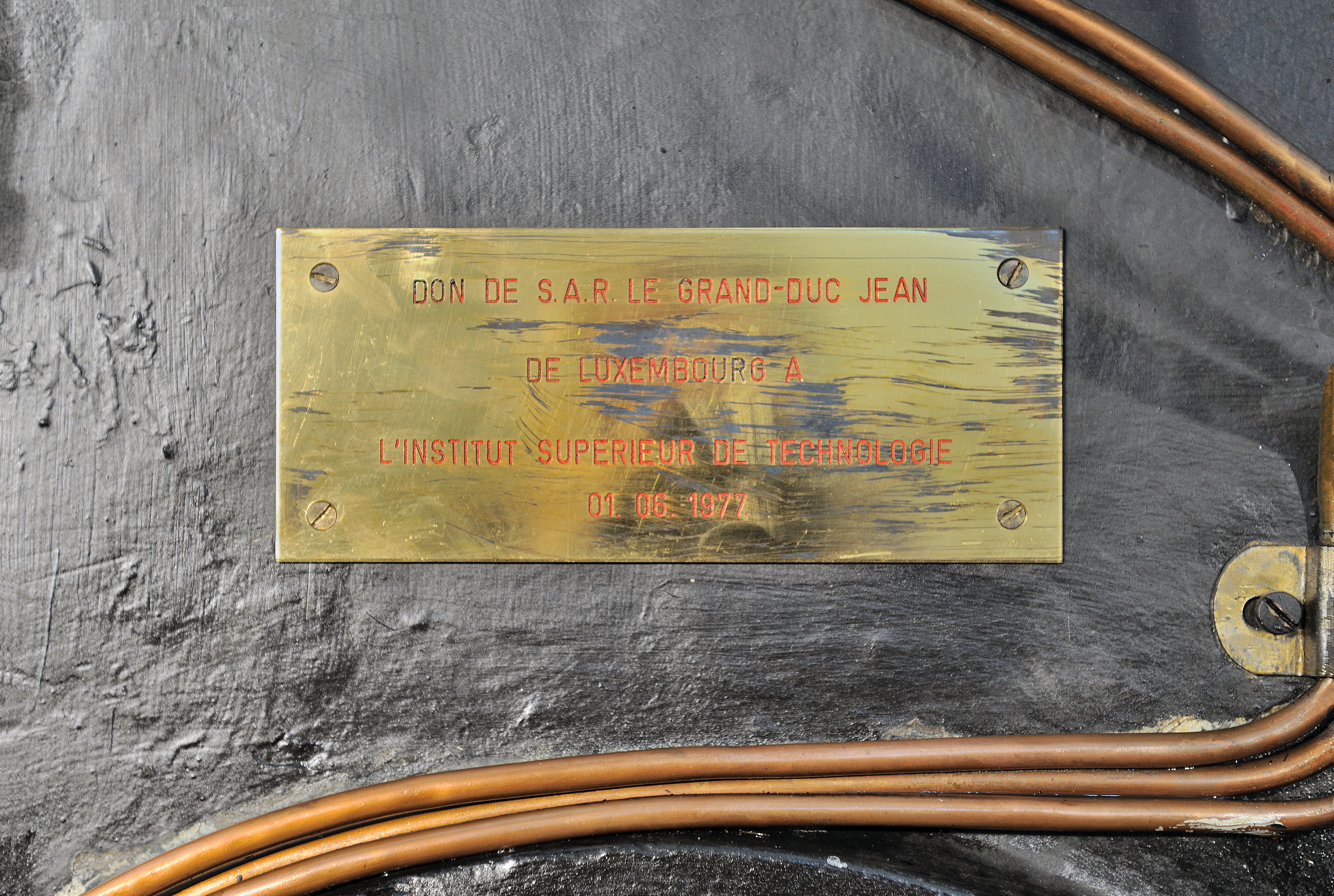 Luxembourg: Plaque displayed on the Deutz Diesel generator built in 1907 for the castle of the Grand-Ducal family at Colmar-Berg. Listed as Cultural Heritage Monument since March 15 2004. The generator was presented to the public from late September to early October 2011 in Differdange.